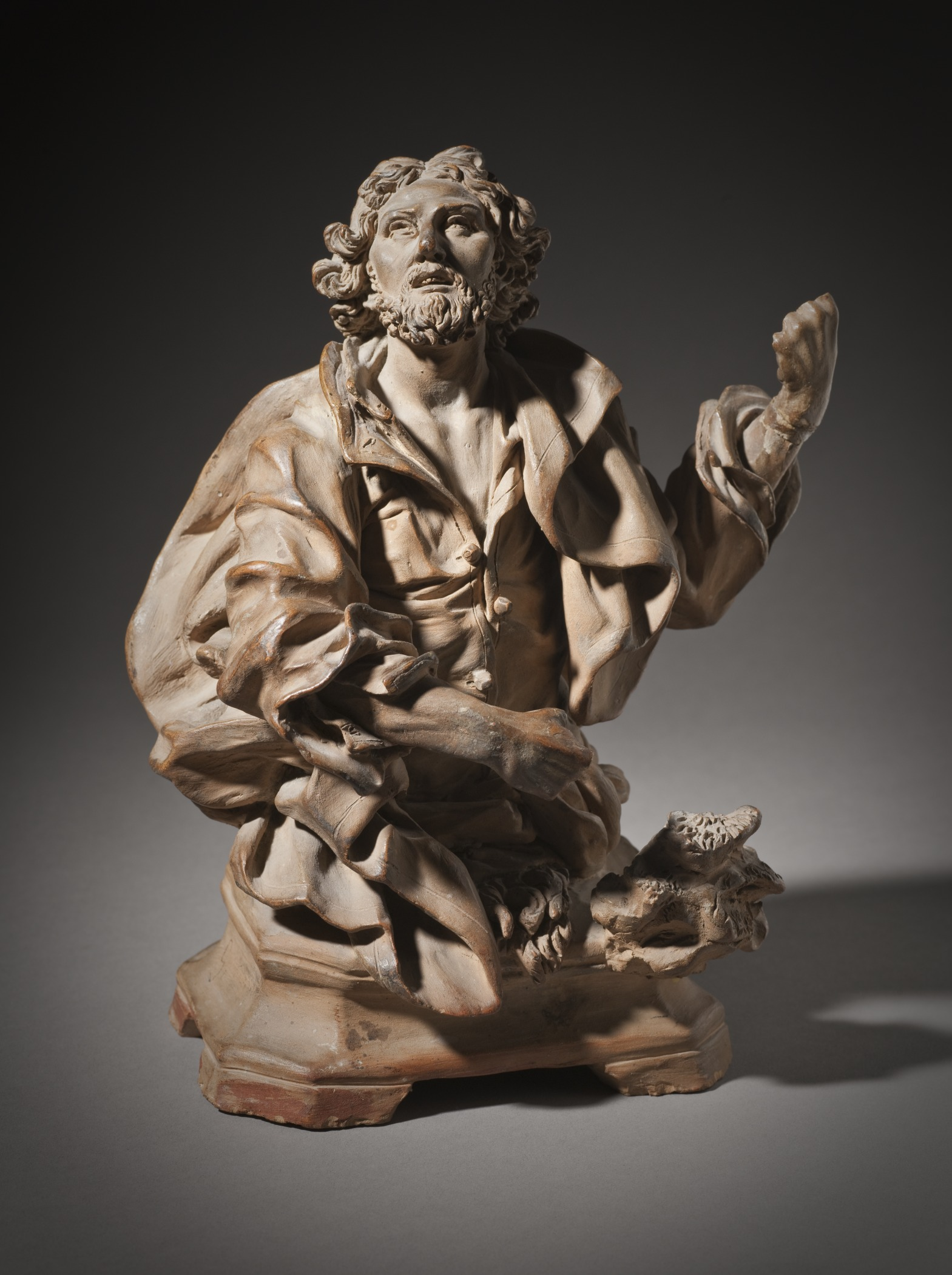 late 18th century Sculpture Terracotta European Art Acquisition Fund (M.2011.27) European Sculpture Currently on public view: Ahmanson Building, floor 3